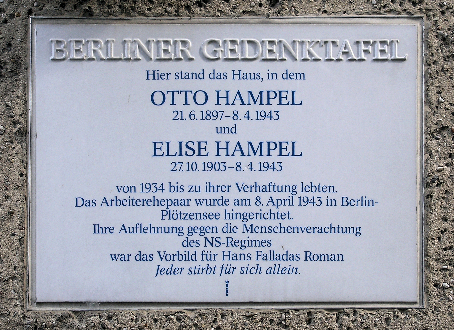 Berlin memorial plaque, Otto Hermann Hampel, Amsterdamer Straße 10, Berlin-Wedding, Germany Koordinate:52°33′4″N 13°21′25″E / 52.55111°N 13.35694°E